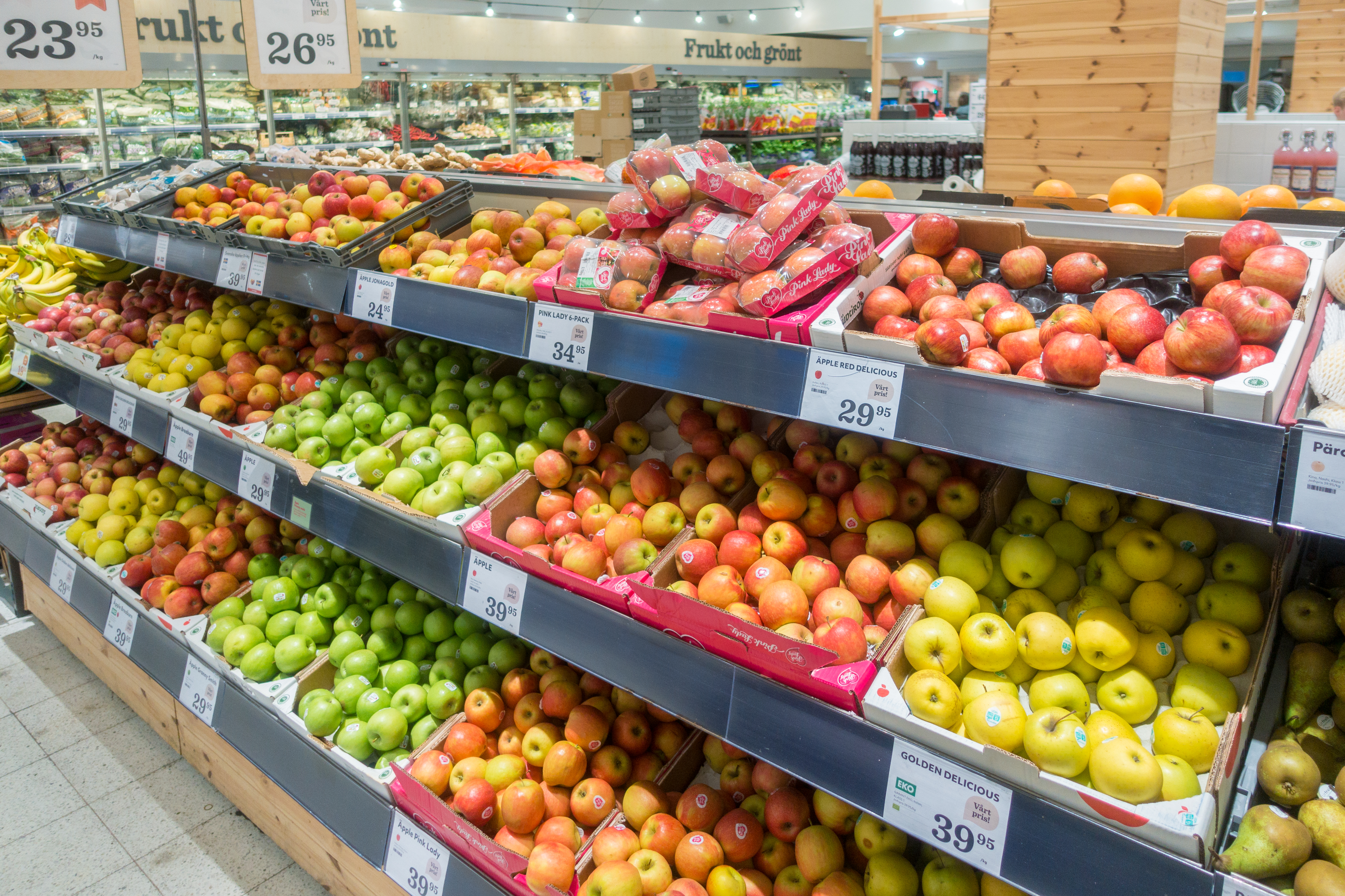 Fruit and vegetable dishes in grocery store in Stockholm 2020.